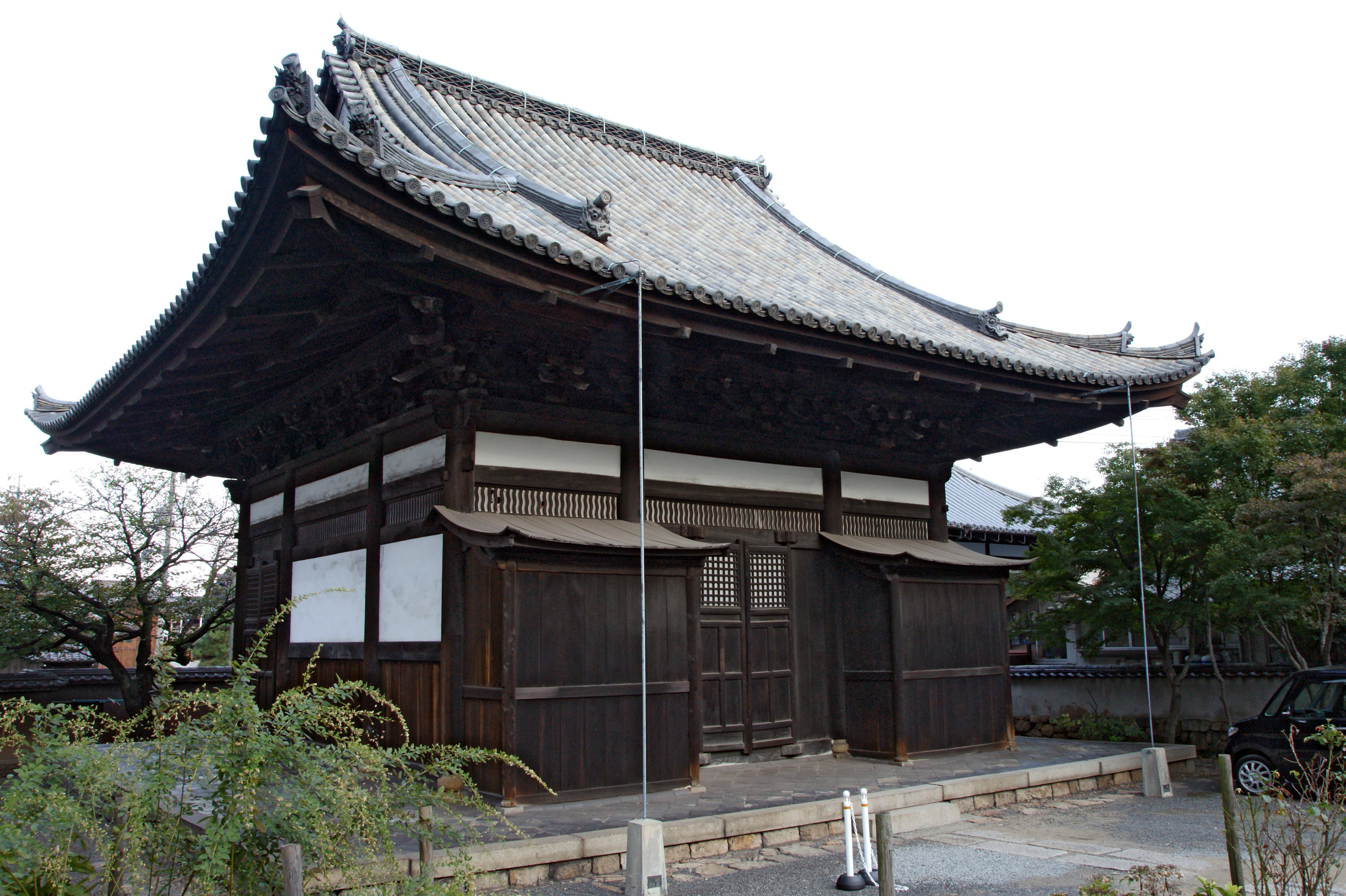 Ankokuji, Fukuyama, Hiroshima Prefecture, Japan